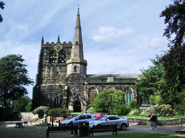 St Peter and St Paul's Church, Ormskirk, near to Ormskirk, Lancashire, Great Britain. Link